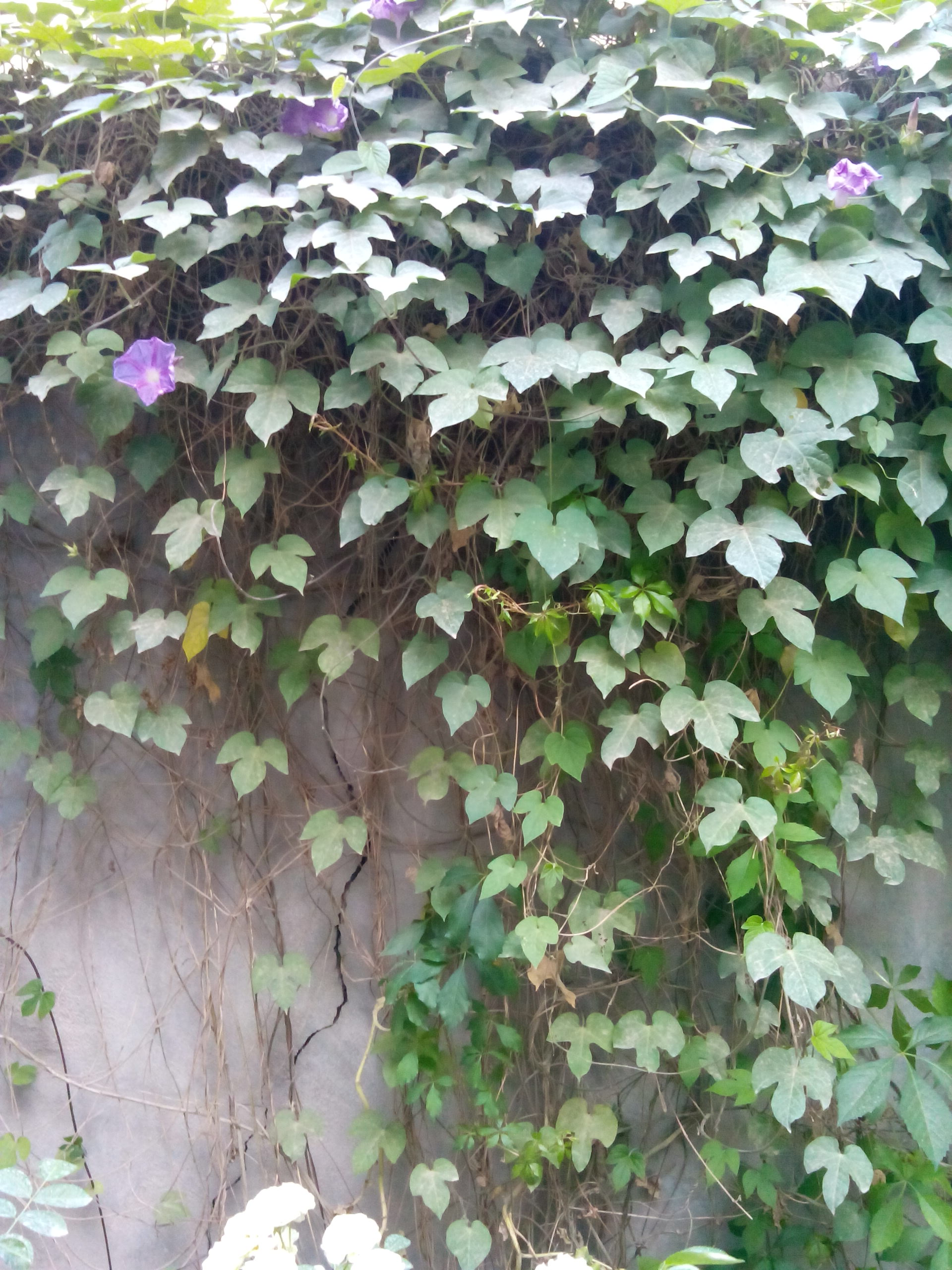 Gardens in Iraq